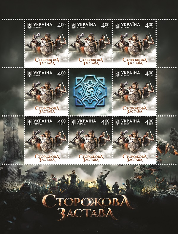 Ukrainian postal stamp.